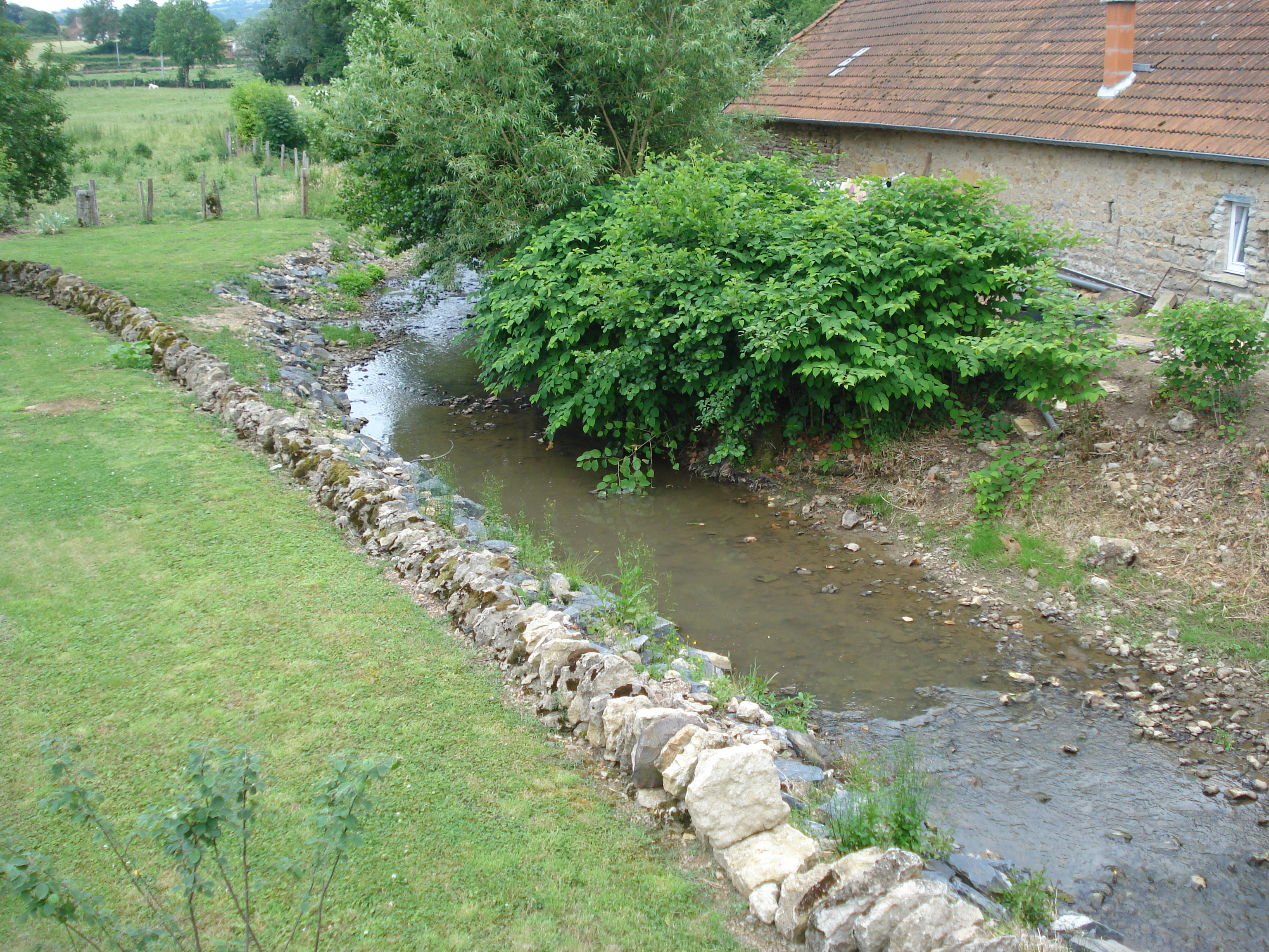 Belaine (river) at Sarry (Saône-et-Loire, Fr).